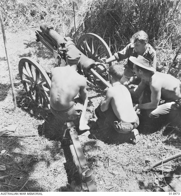 1942-12-31. BUNA. AN AUSTRALIAN MOUNTAIN BATTERY SHELLS BUNA. (NEGATIVE BY G. SILK).